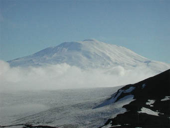 Mount Erebus on Ros Island, Antarctica.